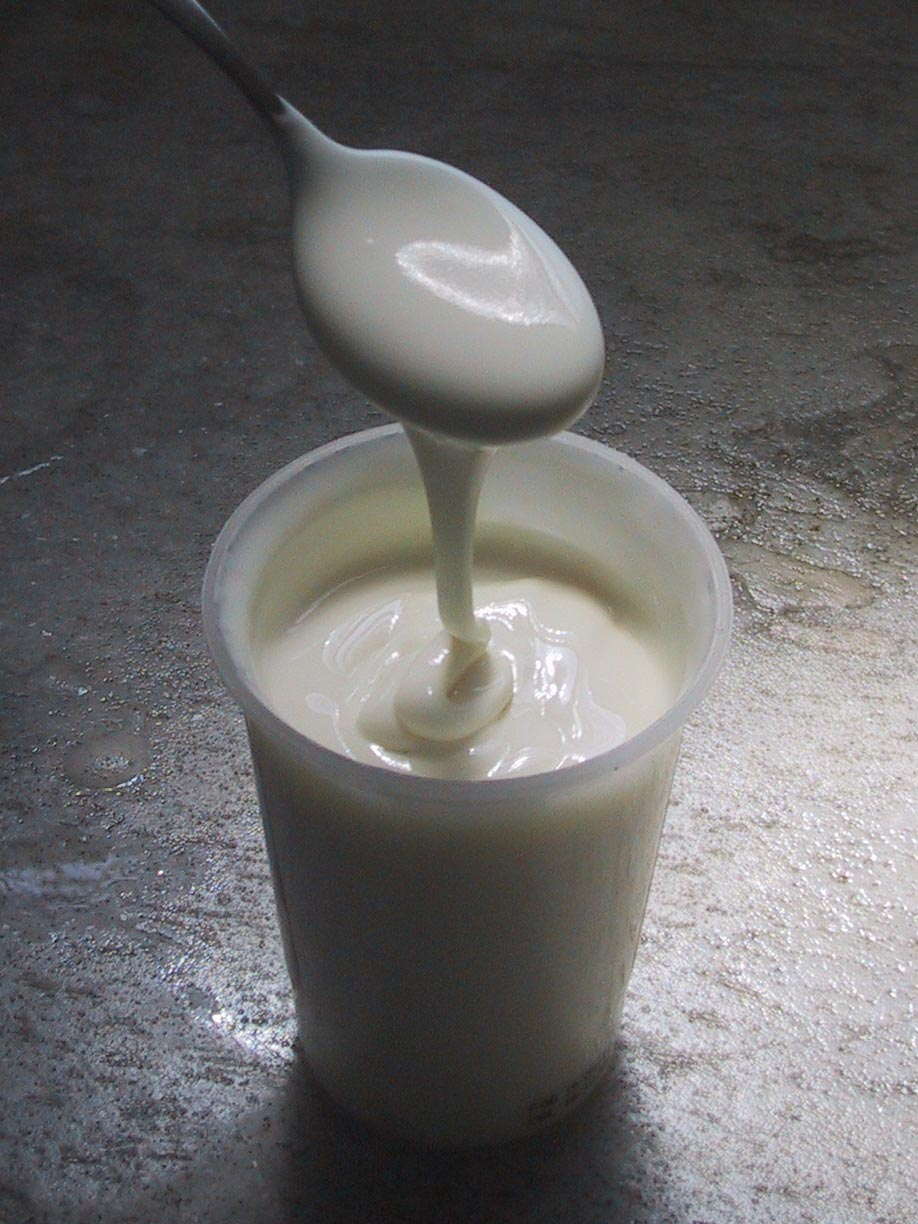 Requeijão Cremoso - the creamiest, most common variant of requeijão, a popular Brazilian cheese.